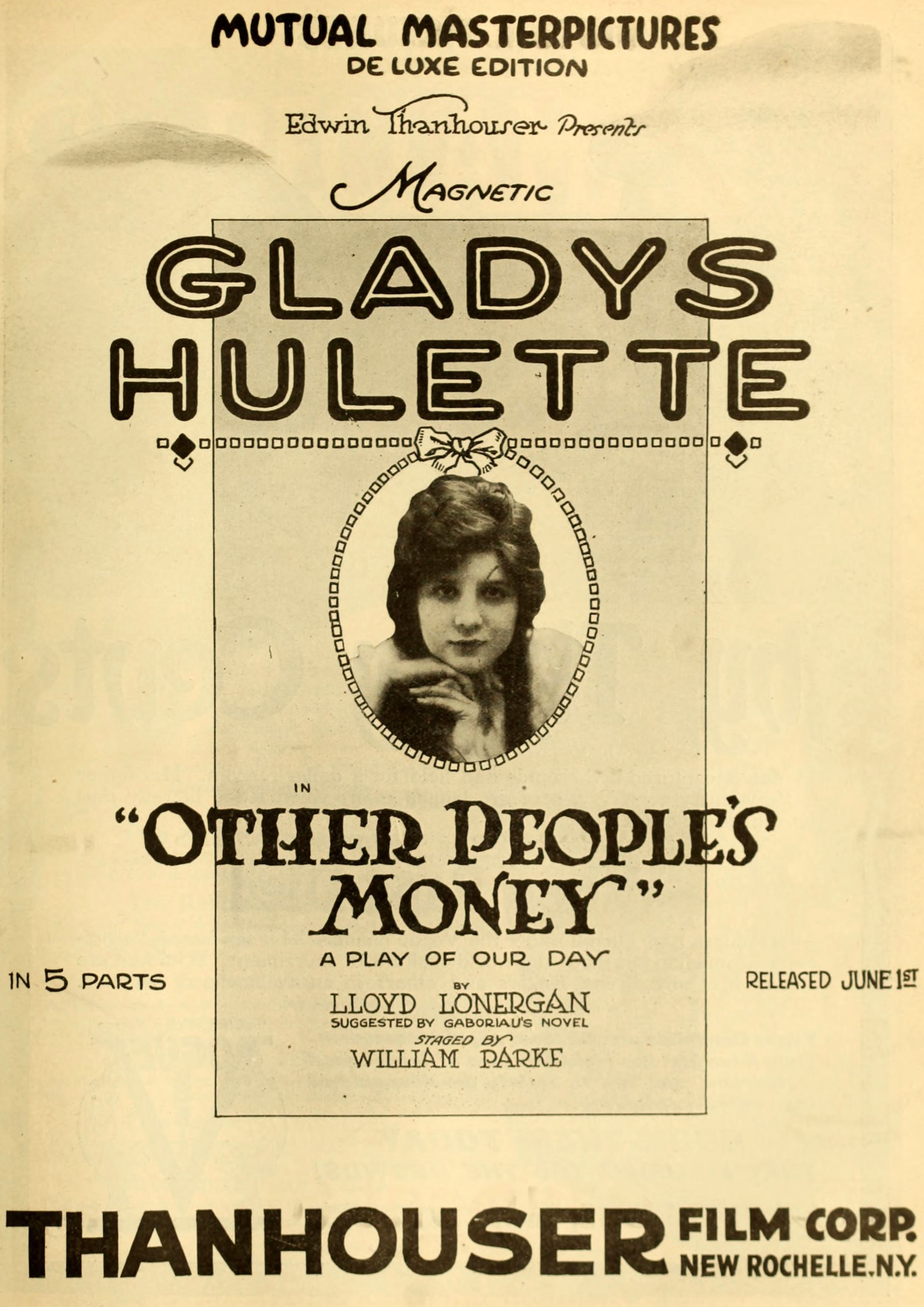 Advertisement in The Moving Picture World